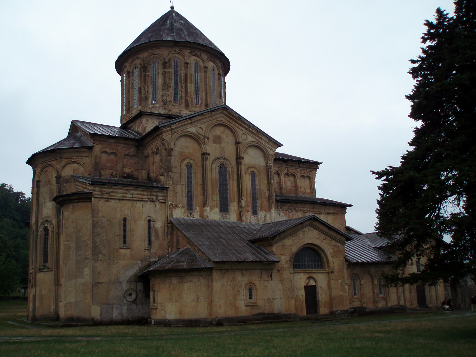 Gelati Monastery